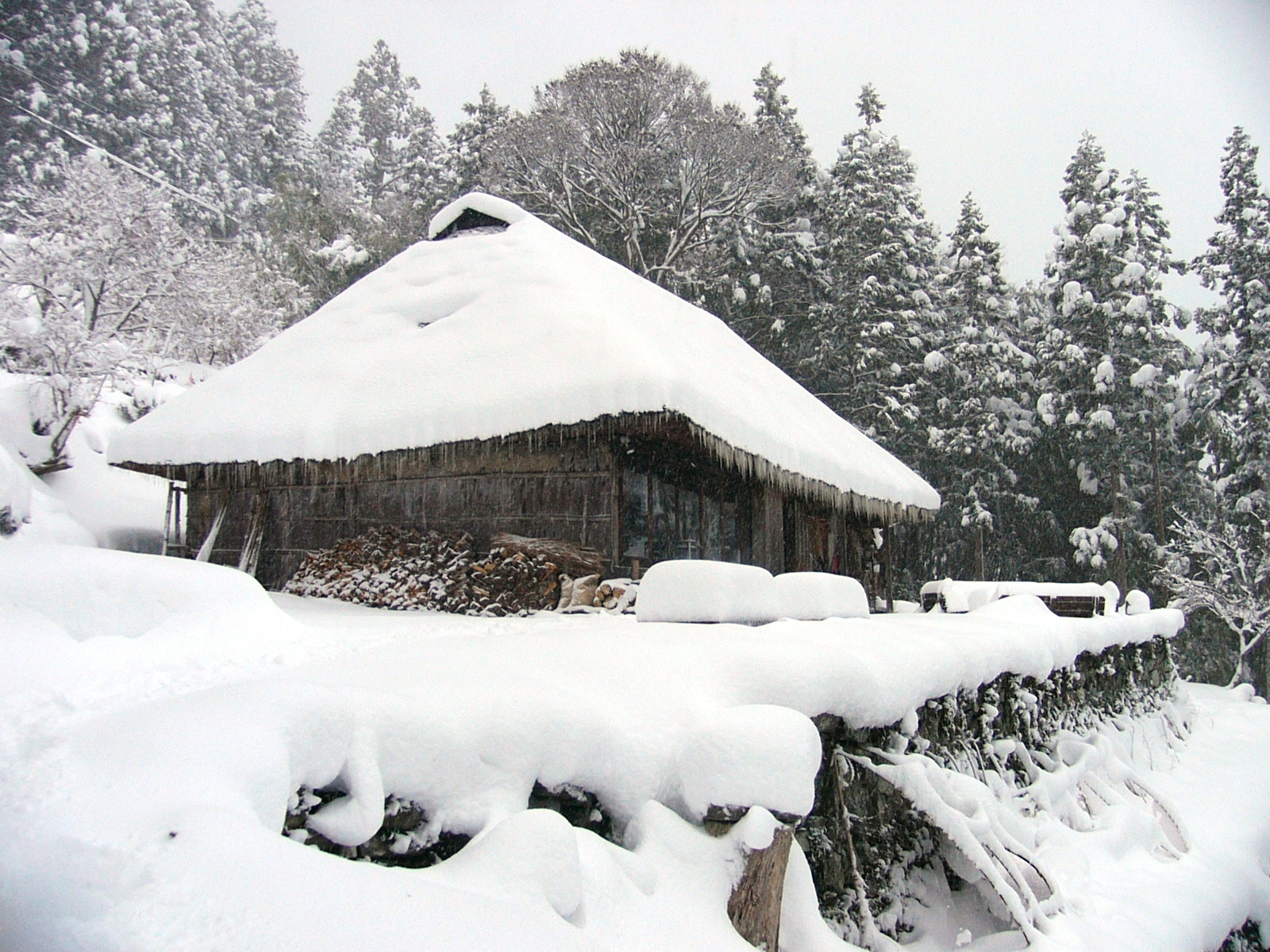 babarracus 4 Dec 2005